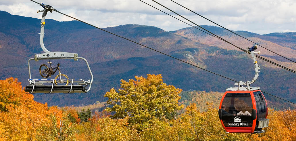 Chondola during the summer.